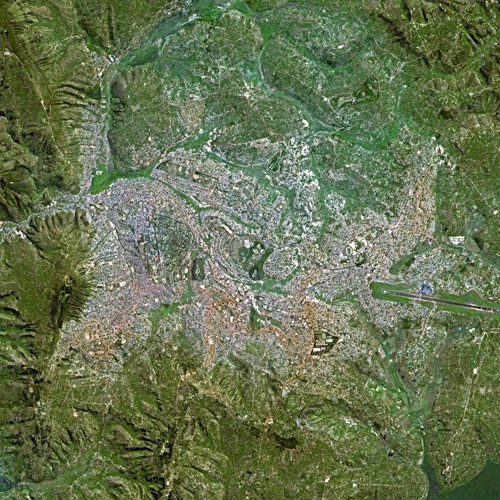 Kigali by SPOT Satellite